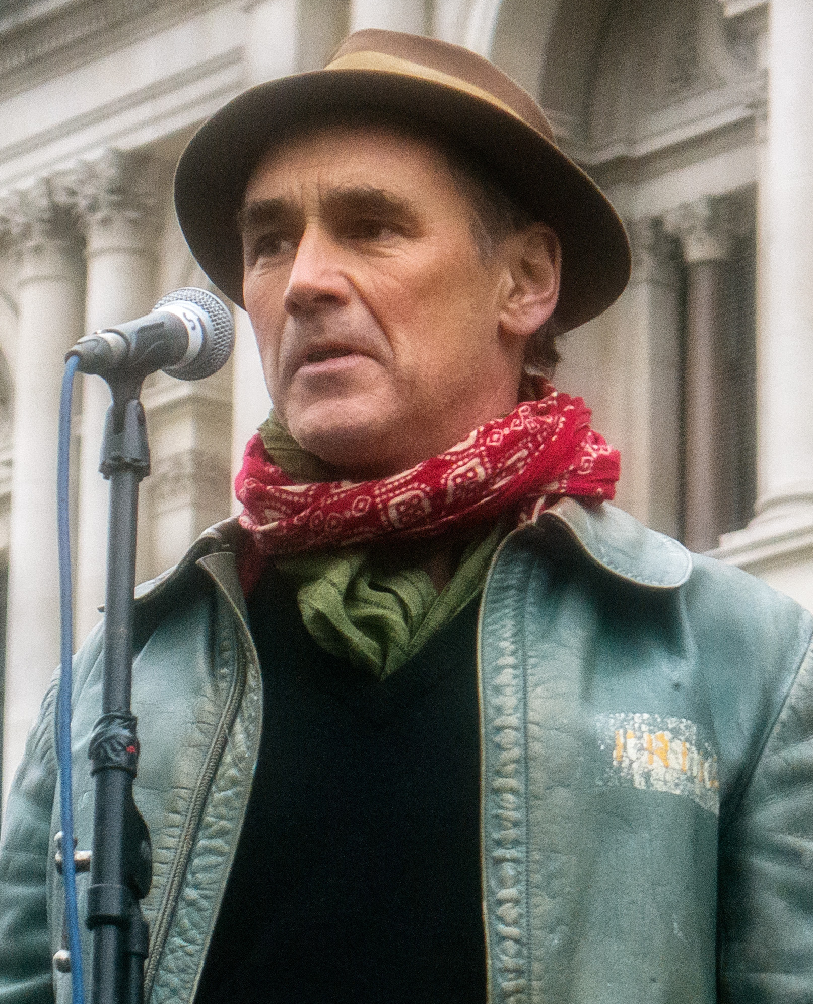 Photos taken at the Stop the War protest at Whitehall in London.